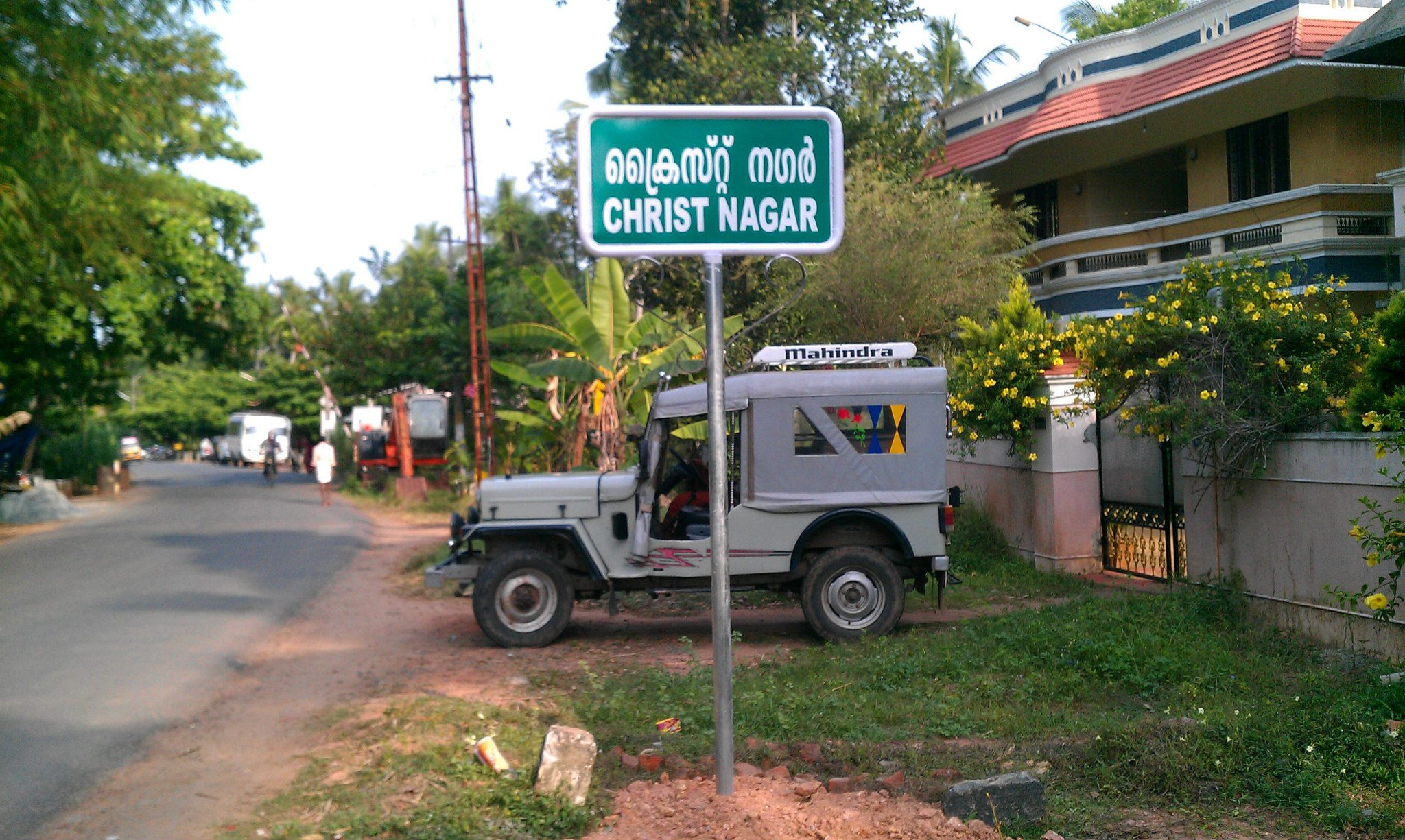 Christ Nagar Residential Area [in Neyyattinkara town, Neyyattinkara Taluk, Trivandrum district, Kerala State, India] contains major landmarks such as Town Church(BFM)-Neyyattinkara (NTA), CSI Town Church-NTA and Prayer Gardens (Ministry of Jesus)-NTA in Vazhuthoor Ward; Bathel Church (Arakkunnu), and extends this area to Irumbil Ward This is the largest residential area in Neyyattinkara town. Arakkunu Check-post which contains Excise and Value Added Tax (VAT) check-post for levying tax for the vehicles carrying goods plying across Kerala and Tamilnadu, [parallel to Amaravila Check-post in NH 47 in Neyyattinkara, Kerala], is also located in this area. This photo was taken in my HTC Inspire mobile on 2013-04-19. However, I have already sent a copy of this photo to one of the authorities of Christ Nagar Residents' Association (CNRA) in Christ Nagar, Neyyattinkara to use and reuse it in their website or blog as they like.